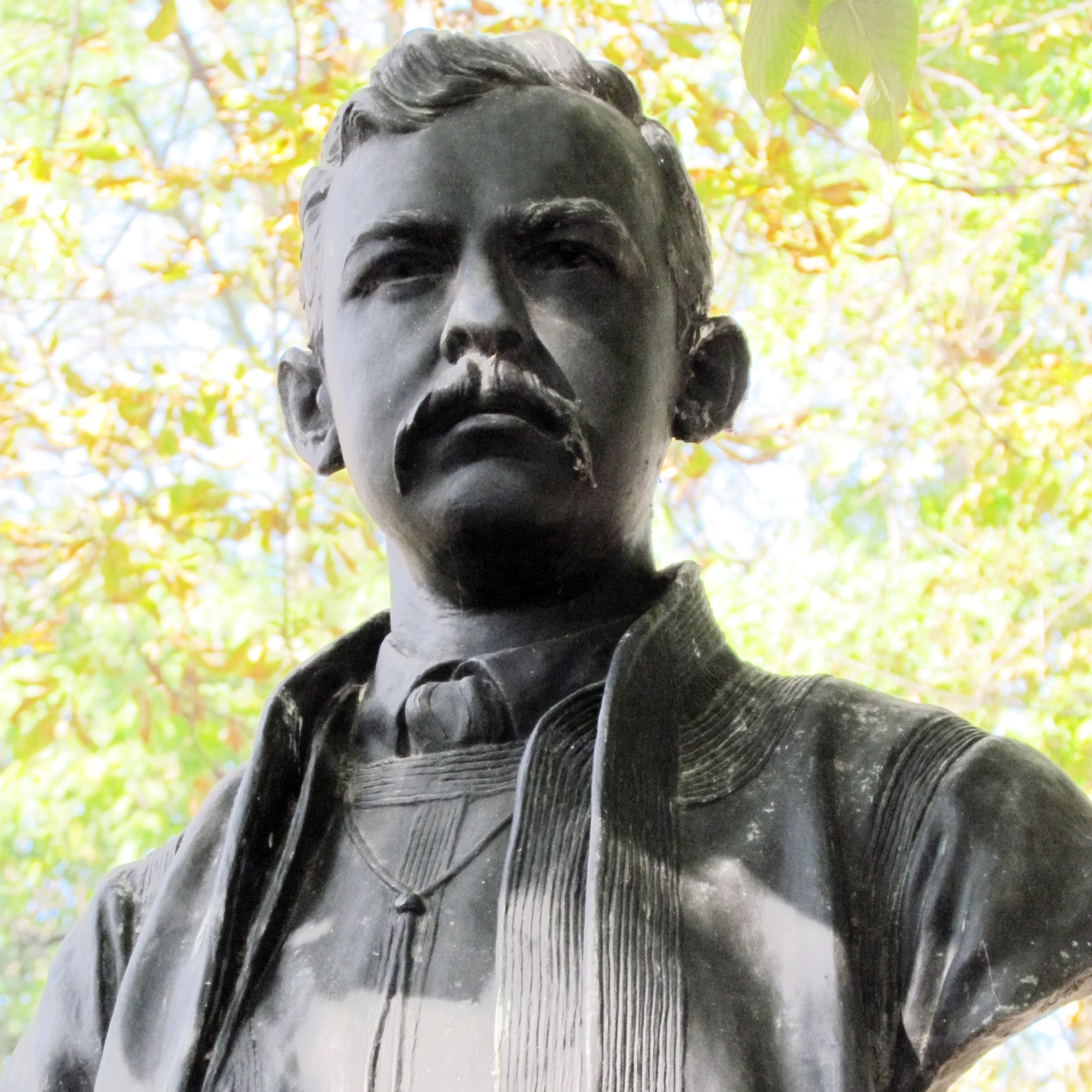 Bust of Janko Veselinović Serbian writer in Kalemegdan park. Belgrade